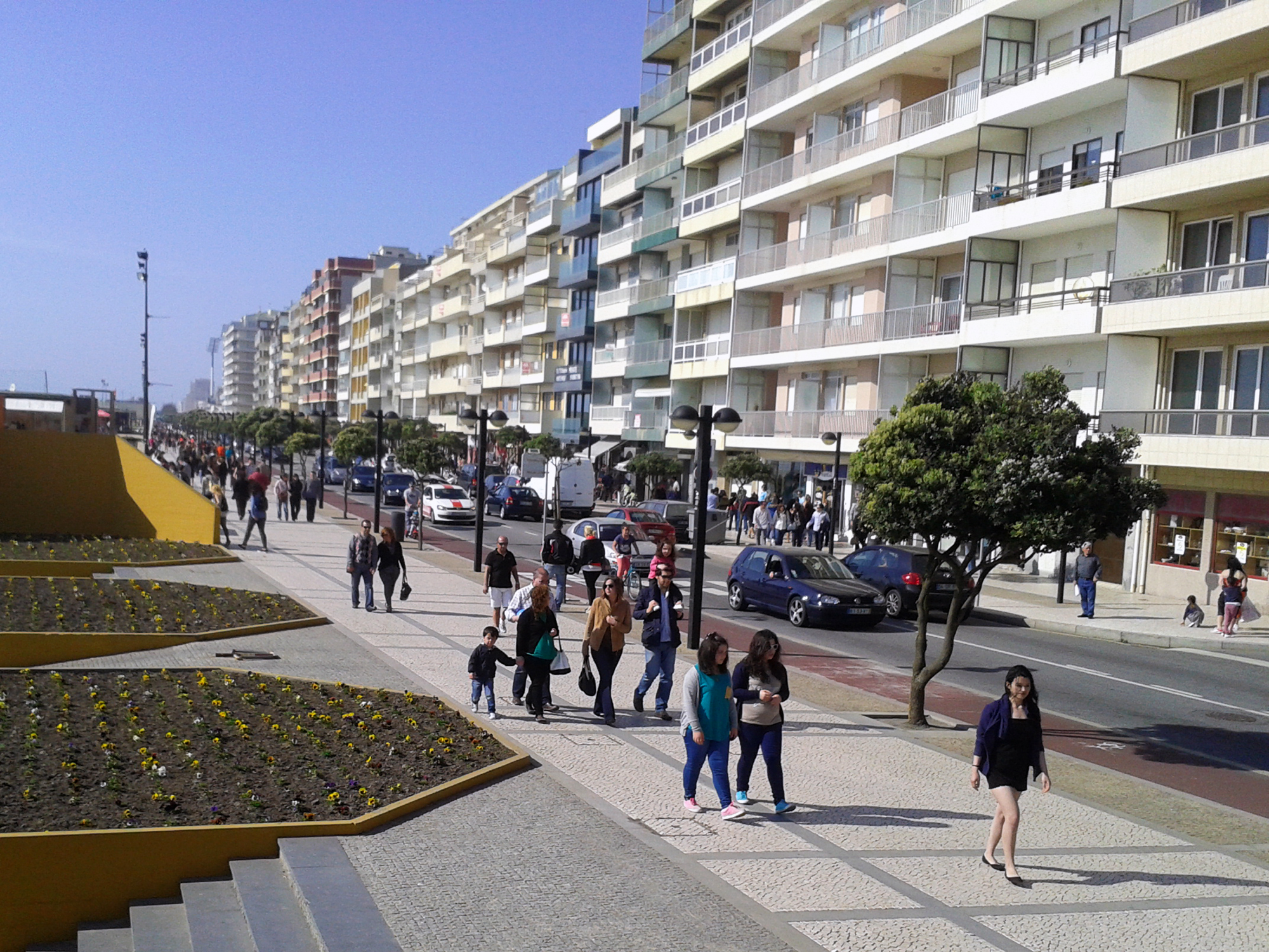 Avenida dos Banhos in the Spring, Póvoa de Varzim, Portugal